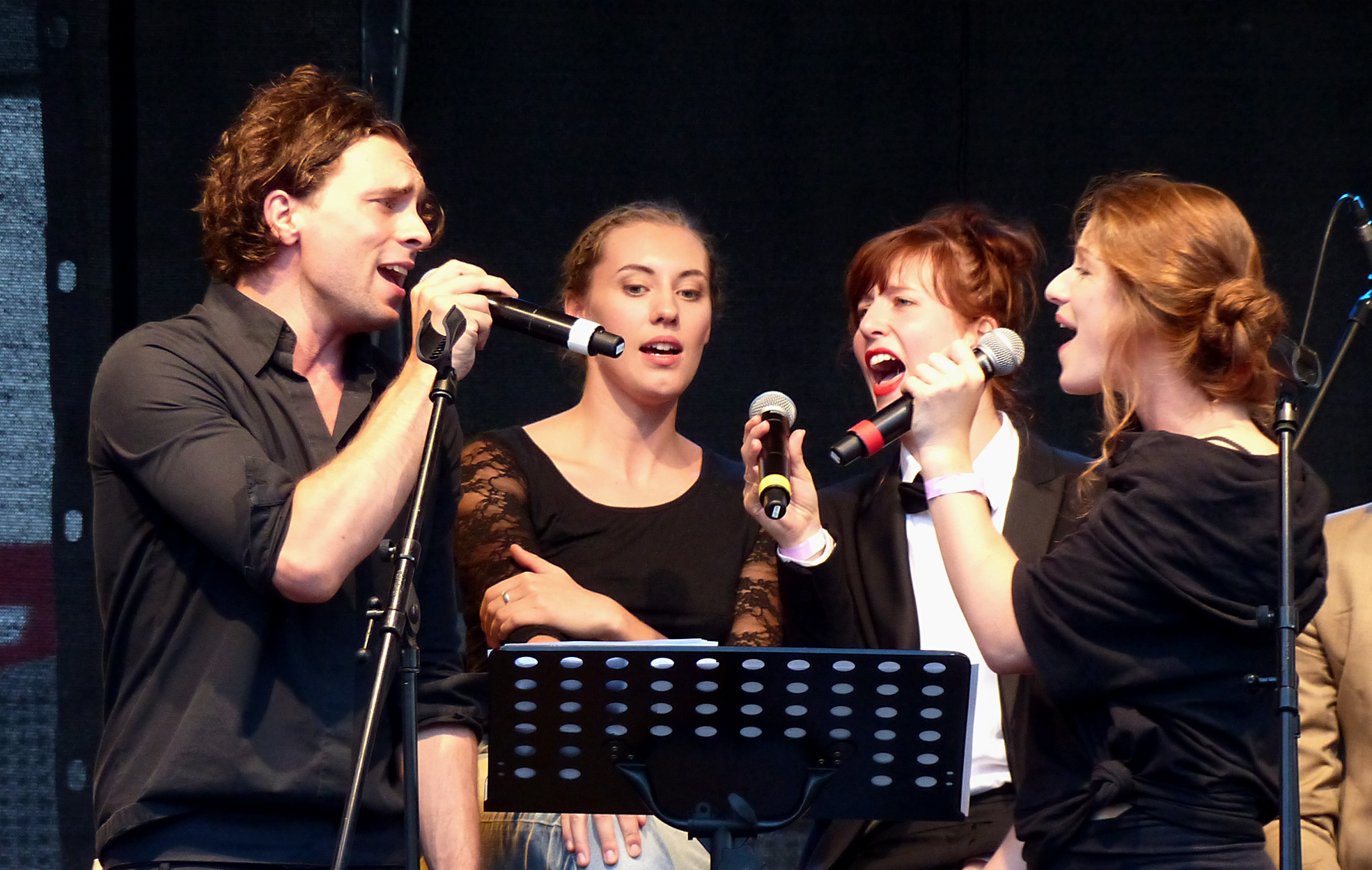 André Kaczmarczyk, Lieke Hoppe, Hannah Werth, Lou Strenger (from l.t.r.), members of the ensemble of the Düsseldorfer Schauspielhaus, at the season opening celebration 2016/17.